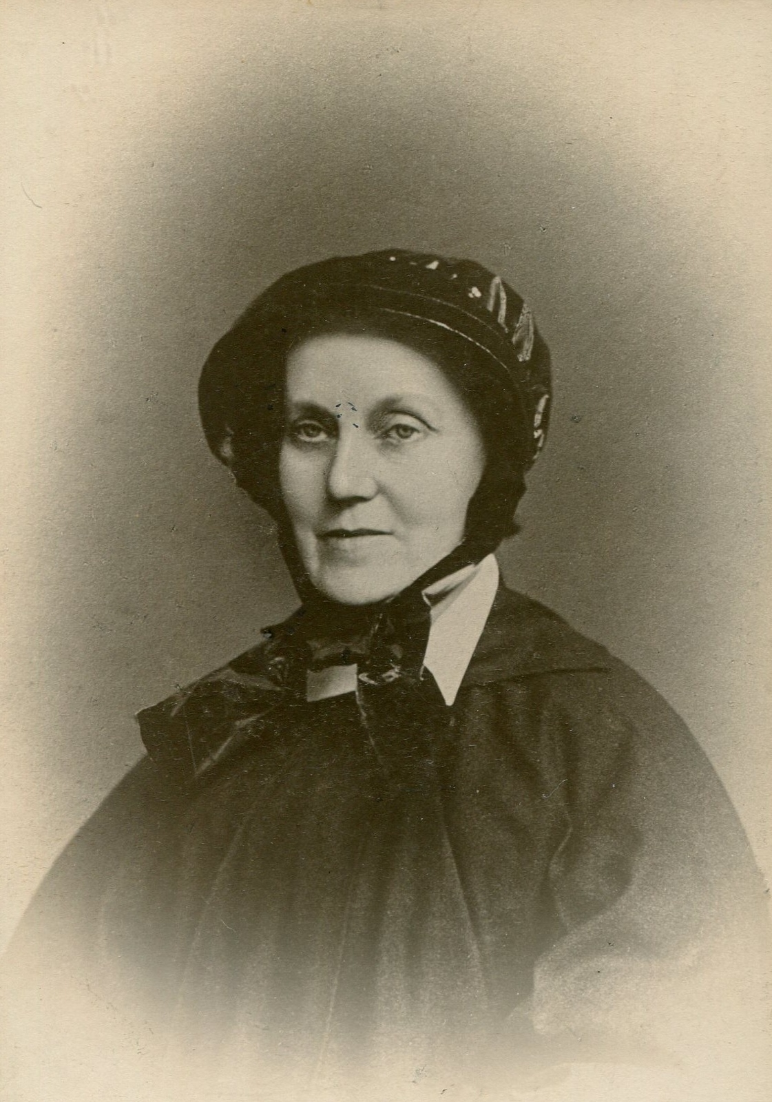 Sister Mary Irene (1823-1896), born Catherine FitzGibbon, founded the New York Foundling Hospital in 1869. The date of this photo is not known.